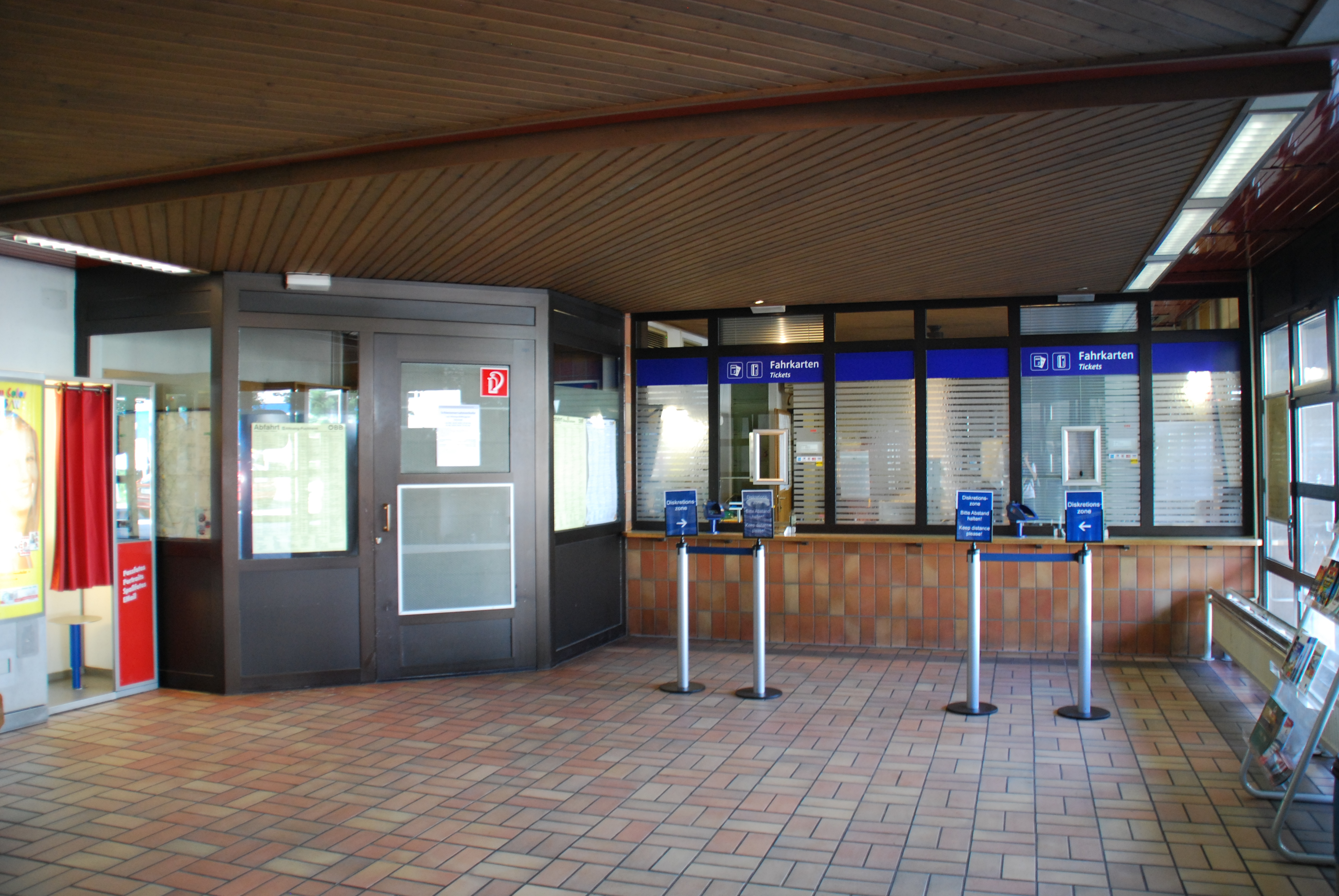 Train Station Attnang-Puchheim (Austria)